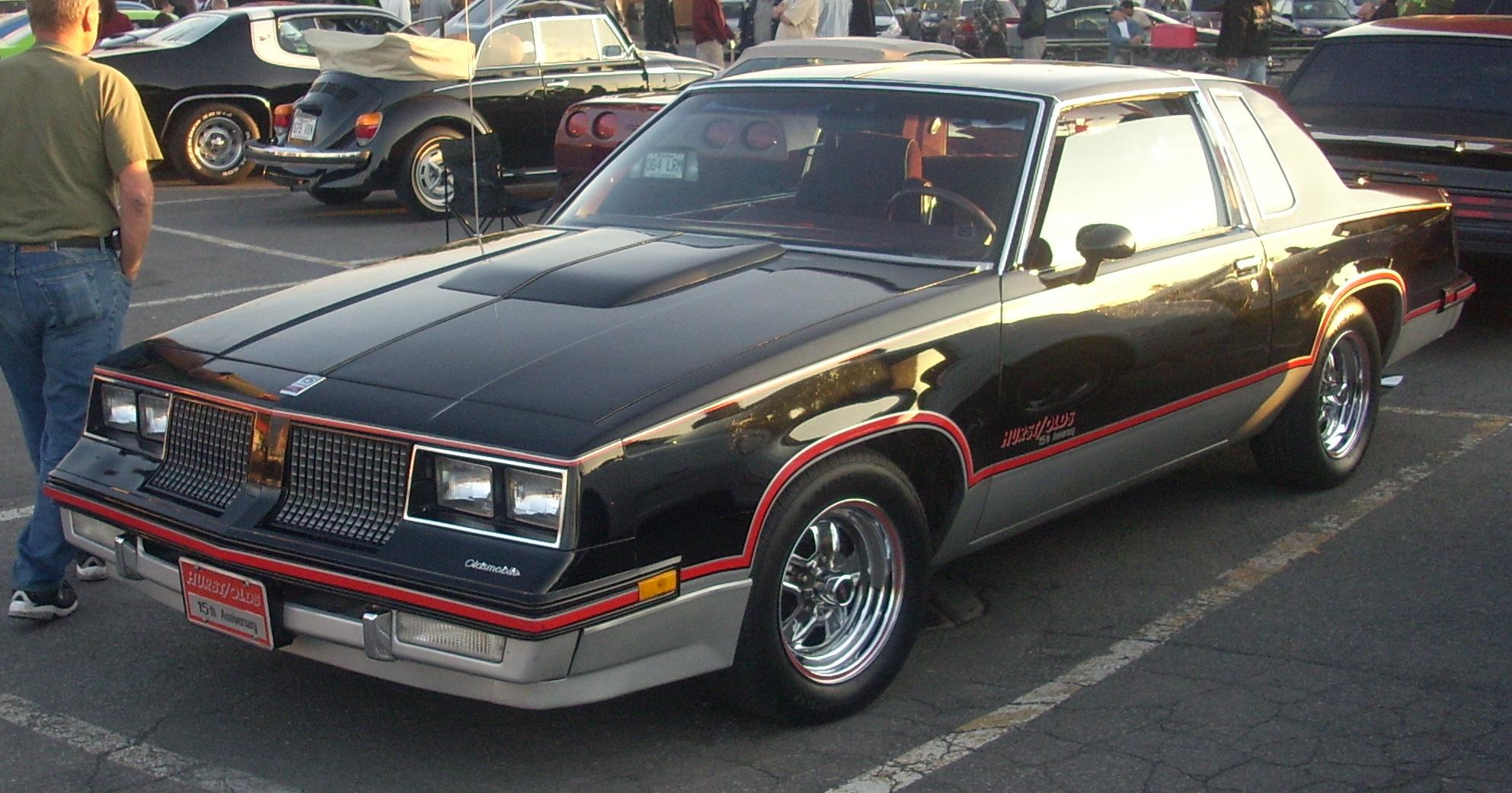 1983 Oldsmobile Hurst/Olds photographed in Montreal, Quebec, Canada at Gibeau Orange Julep.